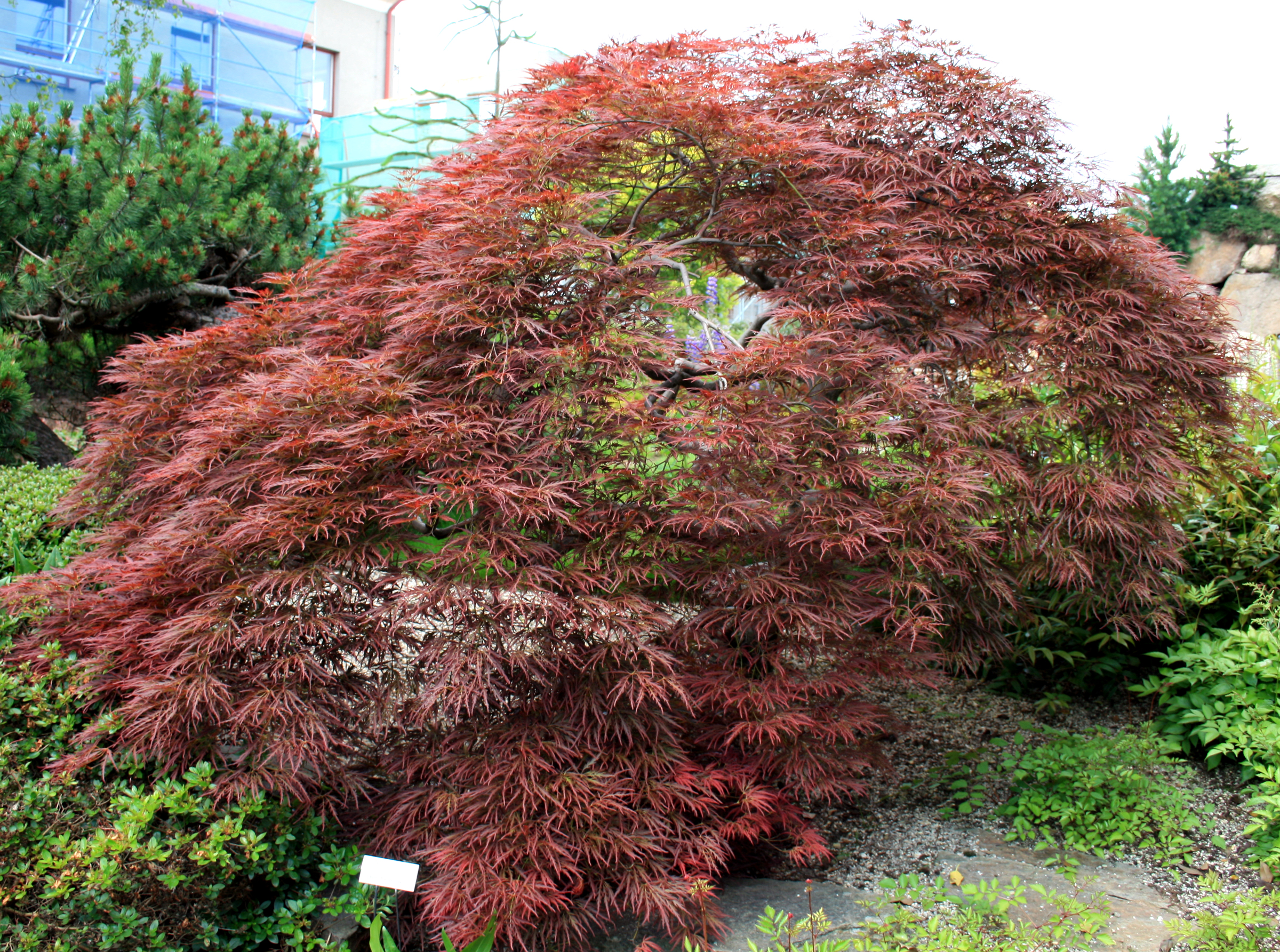 Acer palmatum var. ornatum in Botanical Garden Liberec, Czech Republic